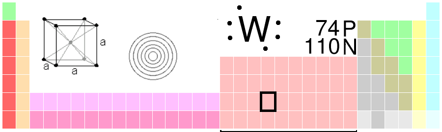 Image by Daniel Mayer or GreatPatton and released under terms of the GNU FDL